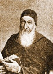 Mikayel Chamchian